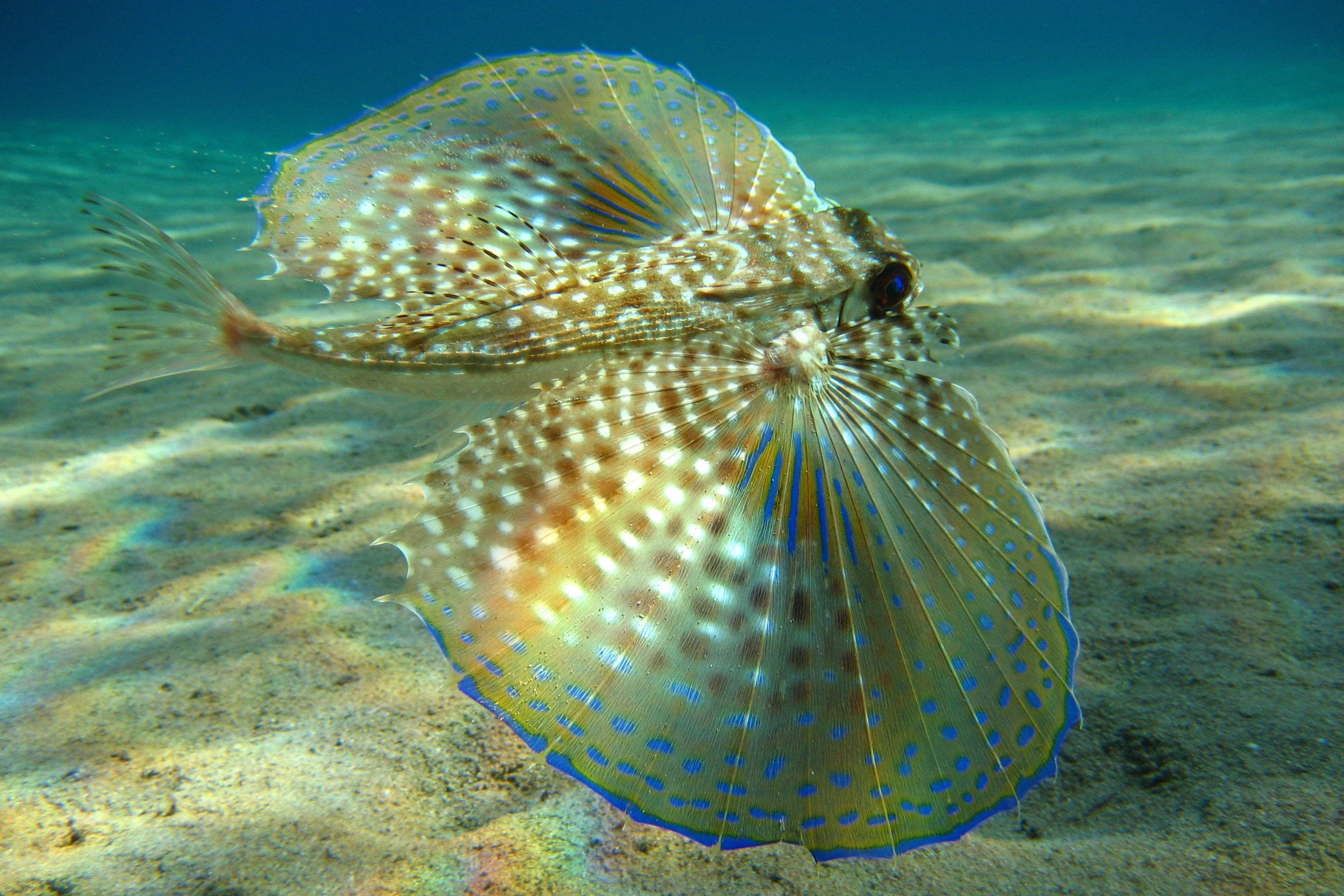 A flying gurnard (Dactylopterus volitans) in the Mediterranean east of Crete, Greece, approx. depth of 3–5 m (10–16 ft).